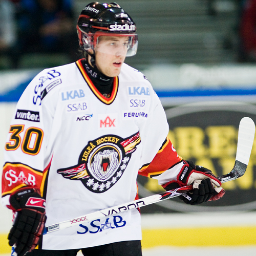 Linus Omark of Luleå HF during an Elitserien game against Frölunda HC in Scandinavium, Gothenburg, on October 10, 2008.